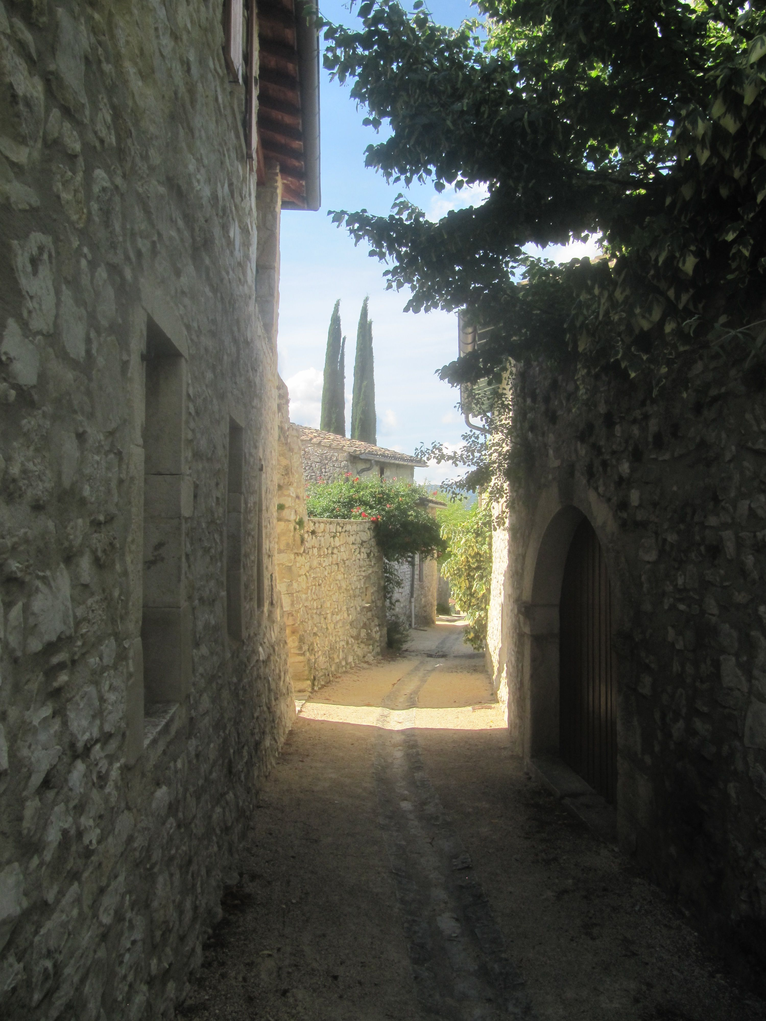 Cobonne VIllage Main street